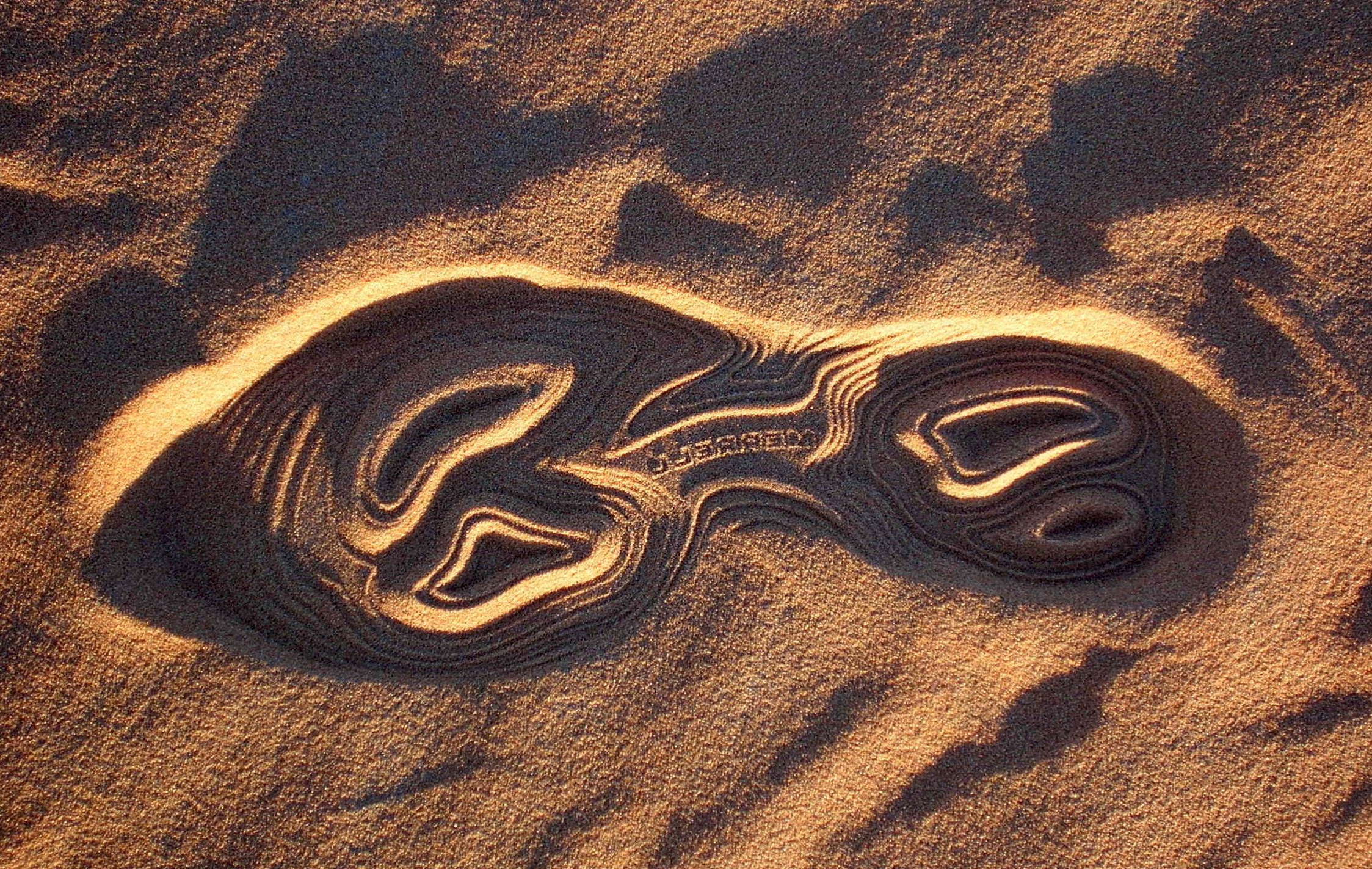 Footprint of a Merrell shoe in Dunes of Merzouga, Morocco